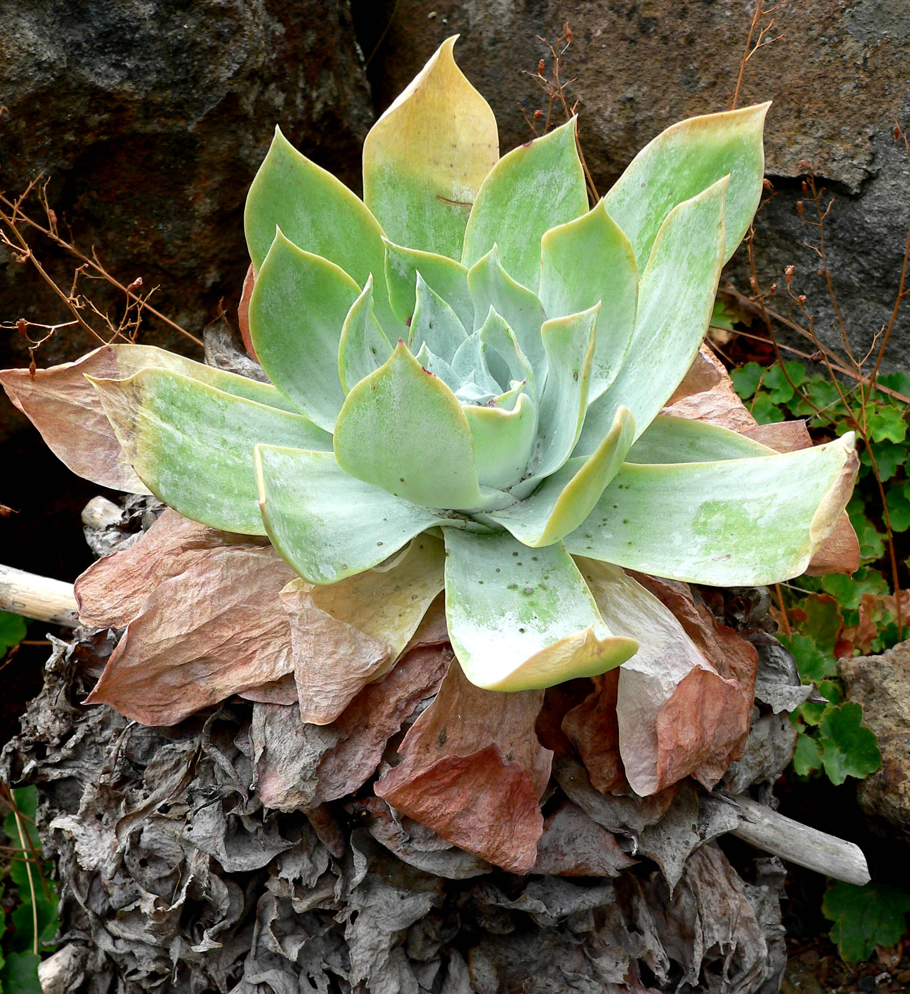 Photo of Dudleya pulverulenta at the Regional Parks Botanic Garden